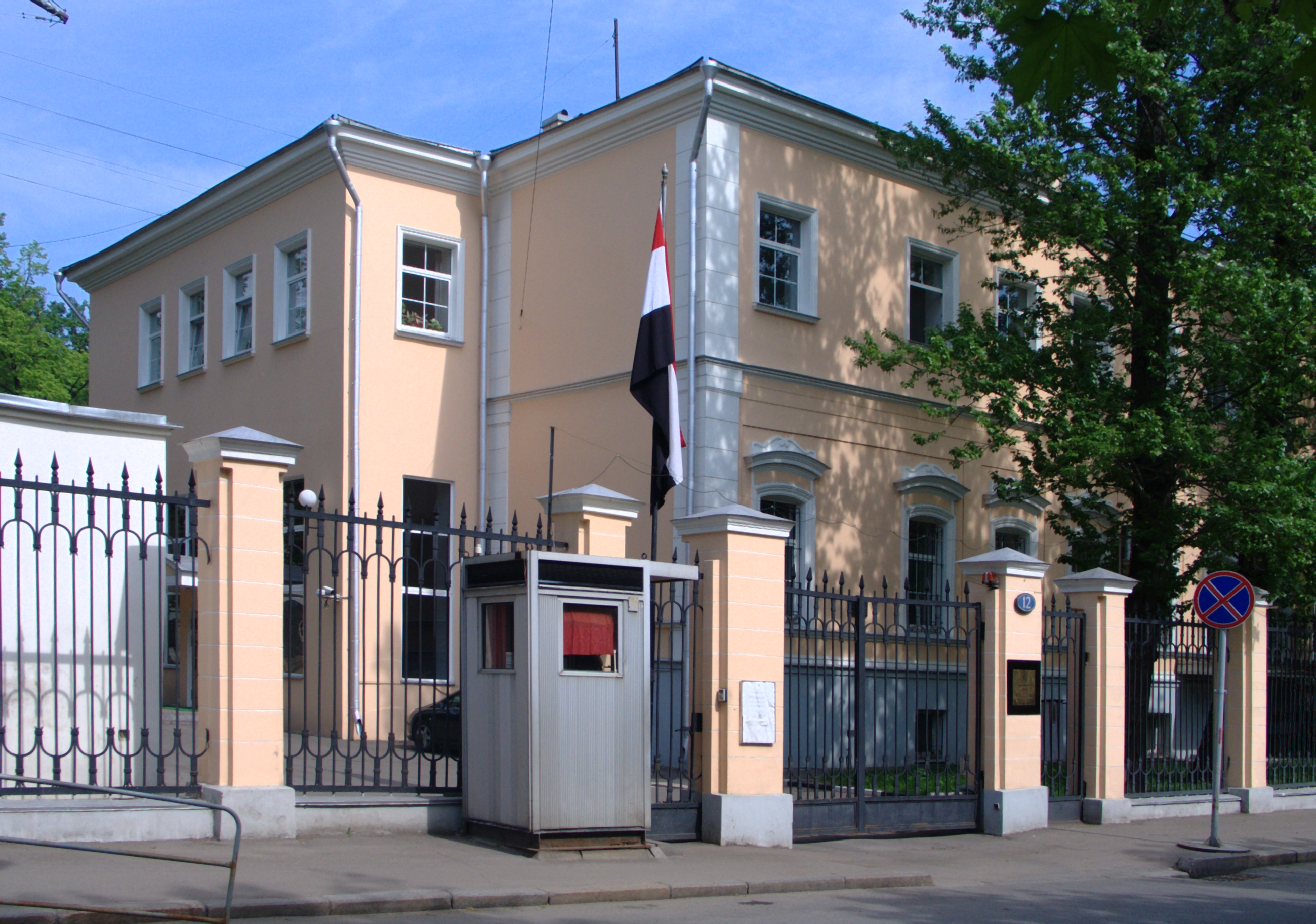 Building of the Embassy of Egypt in Moscow (Kropotkinskiy side-street 12).